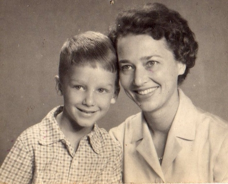 Dutch Immigrants in Argentina (1950s).